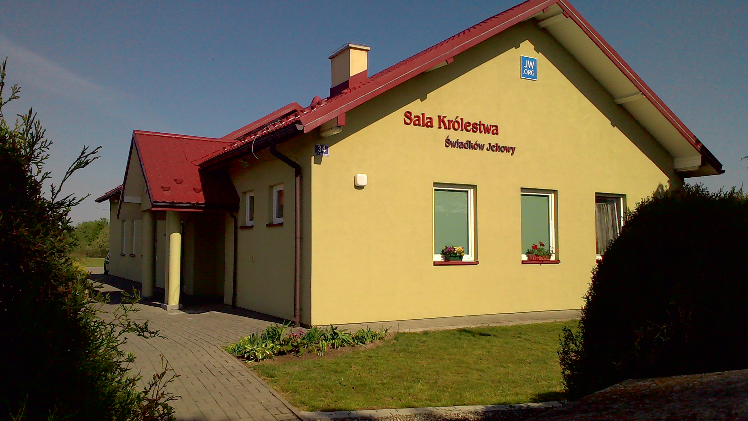 Kingdom Halls Krosno